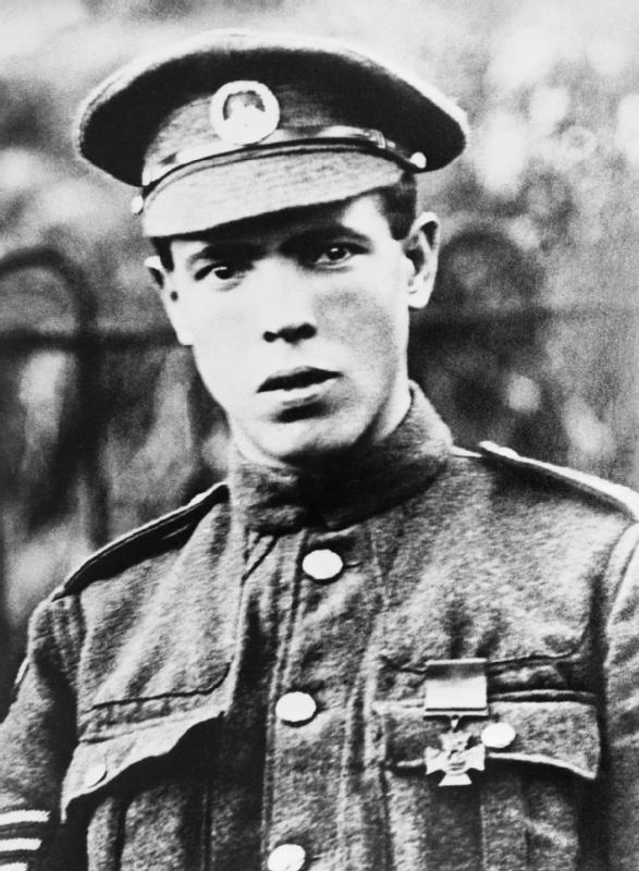 Photograph of Sergeant Ivor Rees VC, Welsh Victoria Cross recipient of World War I.